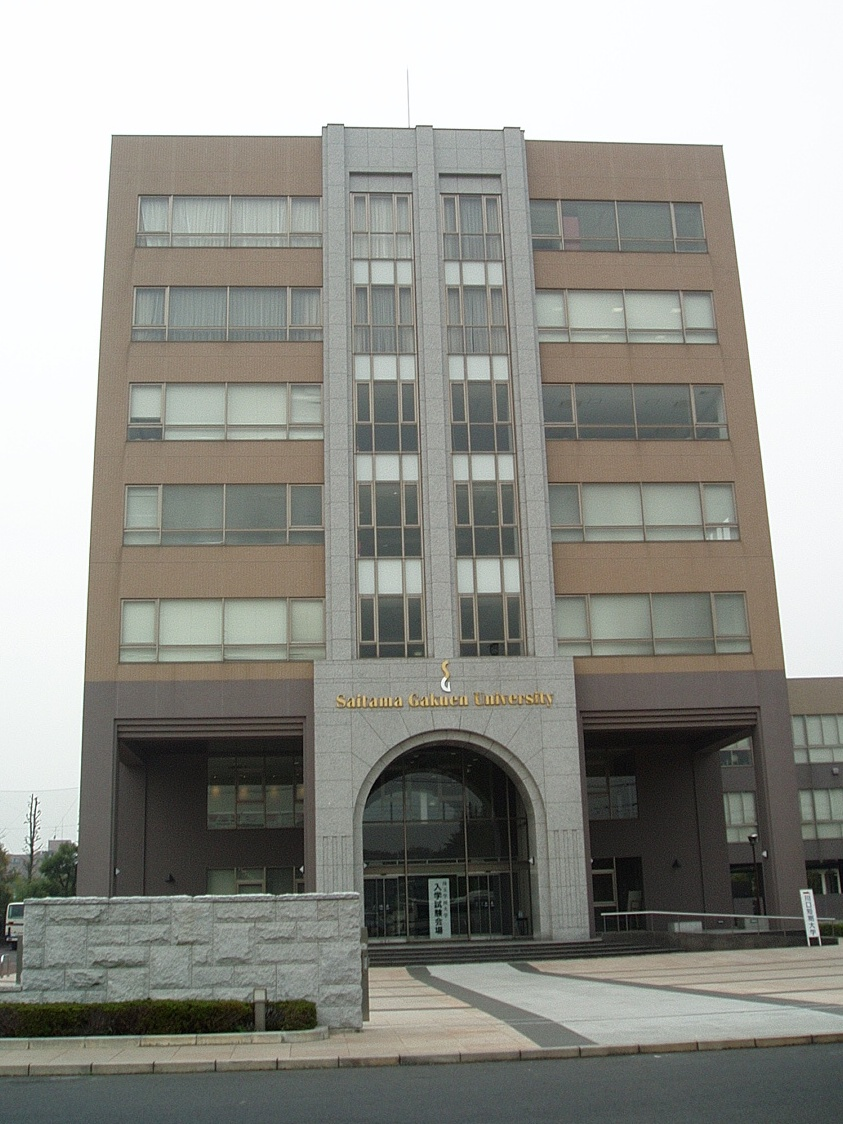 The main building of Saitama Gakuen University located in Kawaguchi, Saitama, Japan.